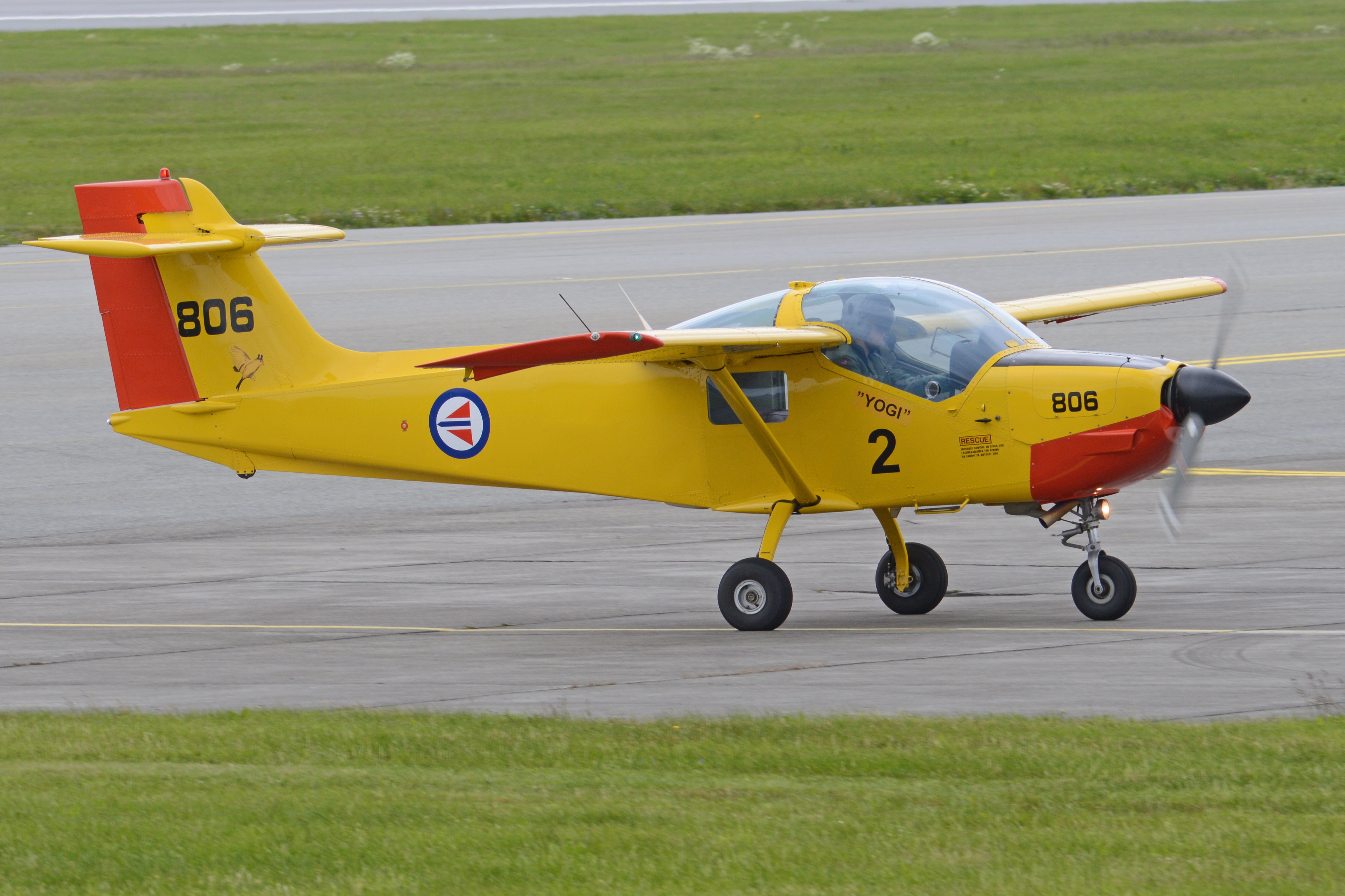 c/n 15-806. Operated by the Luftforsvarets Flygeskole (LFS) of the Royal Norwegian Air Force. As one of four aircraft making up the “Yellow Sparrows” formation team, Seen taxiing to the flying club hangars for fuel after the second day of the 2017 Sola airshow. Stavanger Airport, Sola, Norway. 11th June 2017.